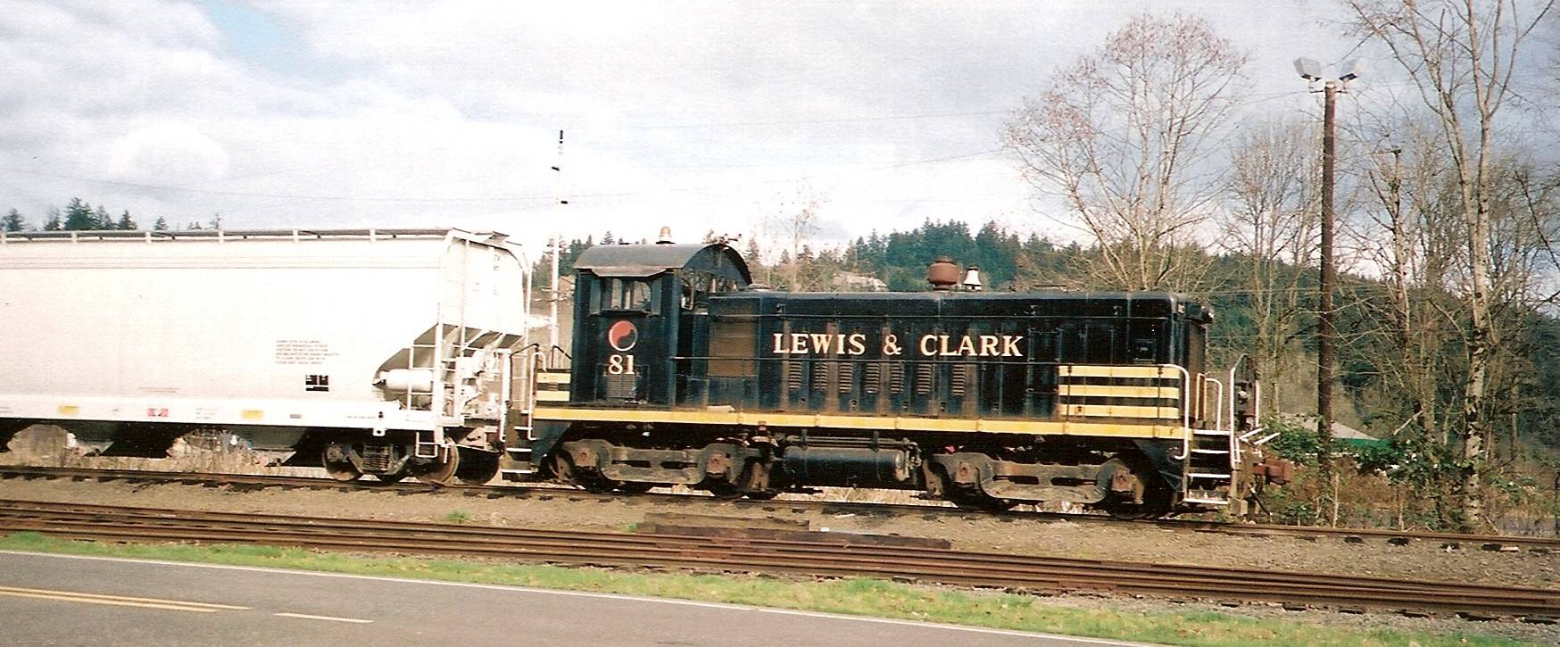 Lewis and Clark Railway locomotive